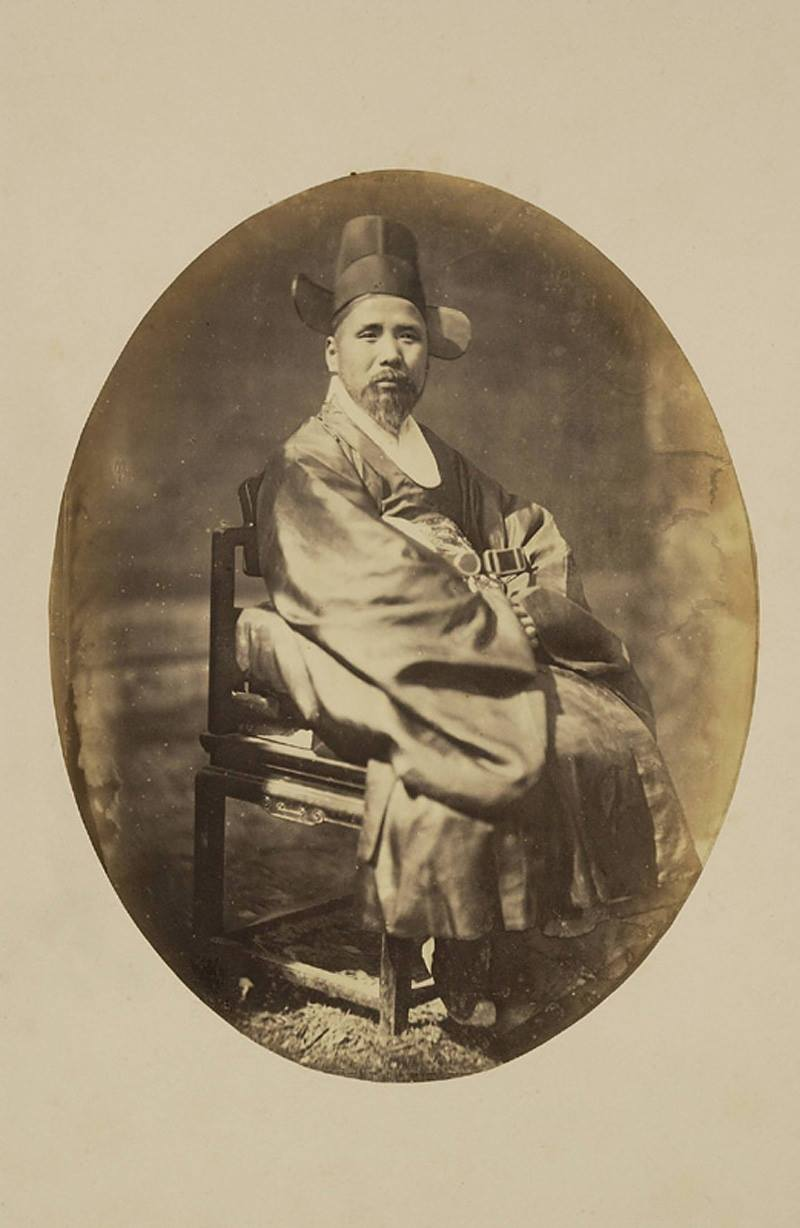 One of the oldest photographs of Korean people